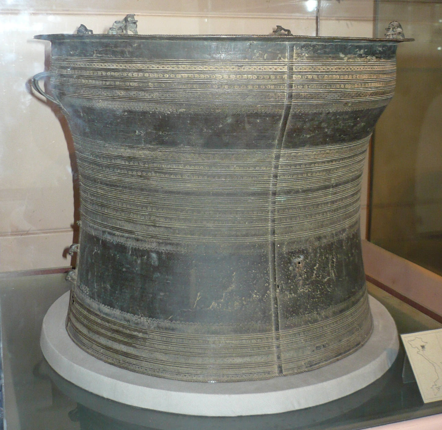 TÂN ĐỘ BRONZE DRUM (TYPE III - HEGER) Hà Tây Province h: 48.1cm, d: 61.9cm